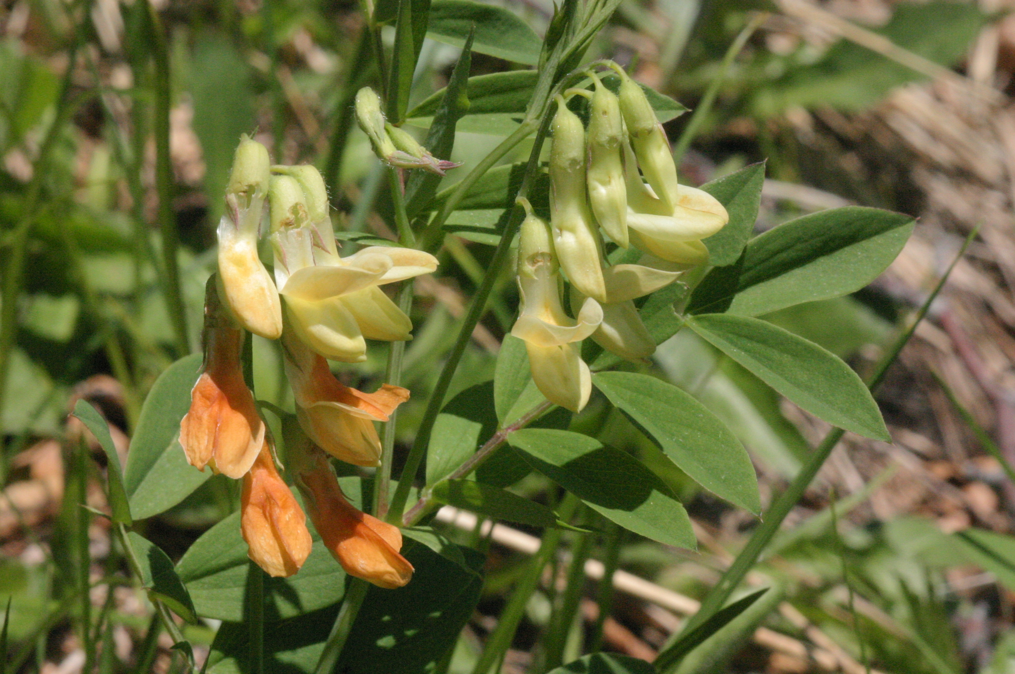 Lathyrus laevigatus